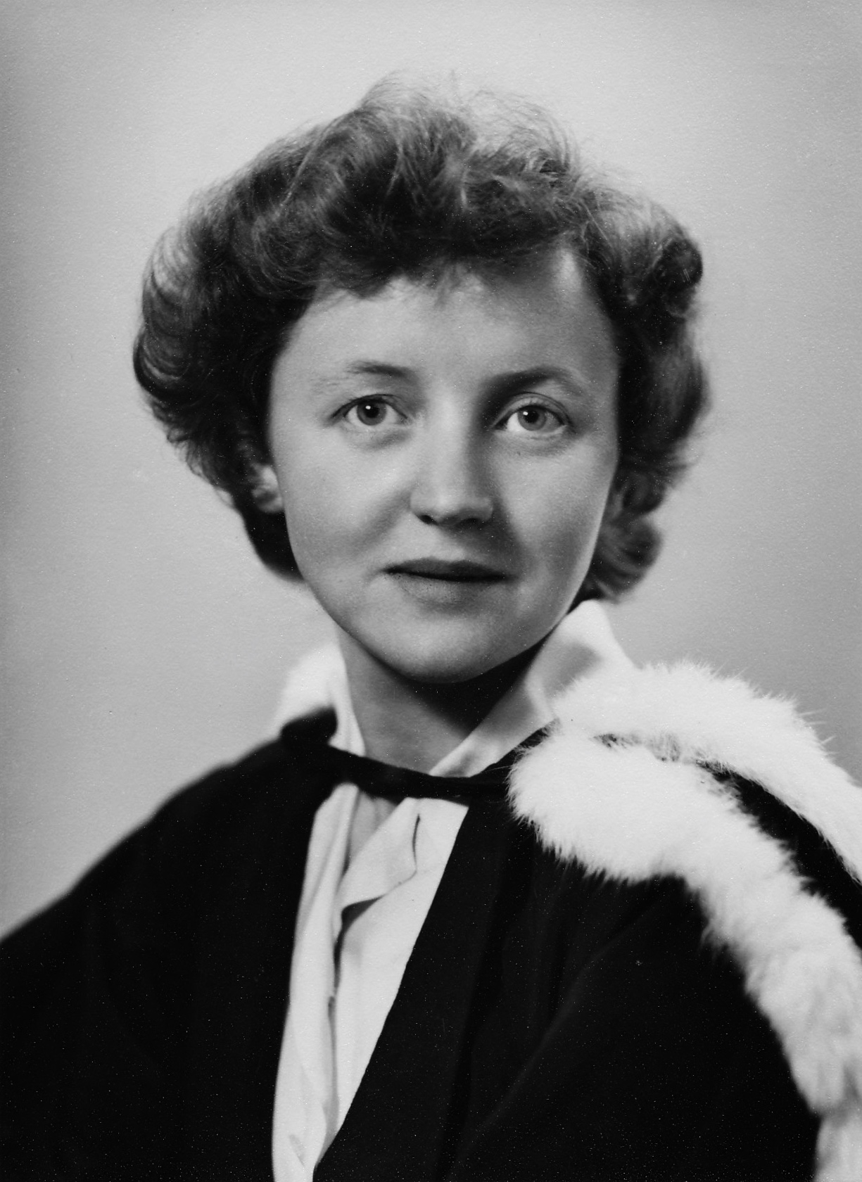 Brenda Swinbank on her graduation day